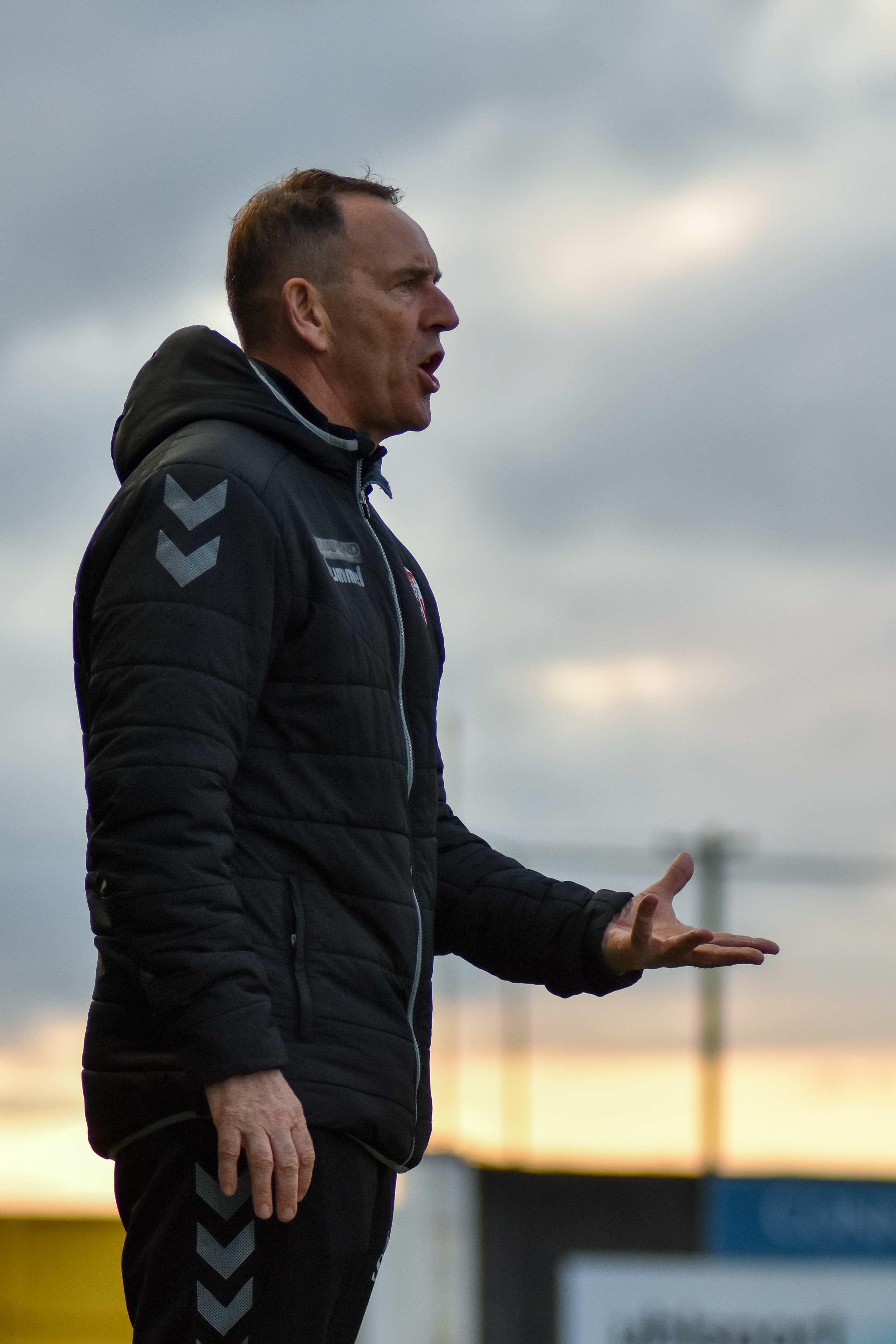 Kenny Shiels overseeing this Derry City charges in the 2017 EA Sports Cup at Eamonn Deacy Park, Galway